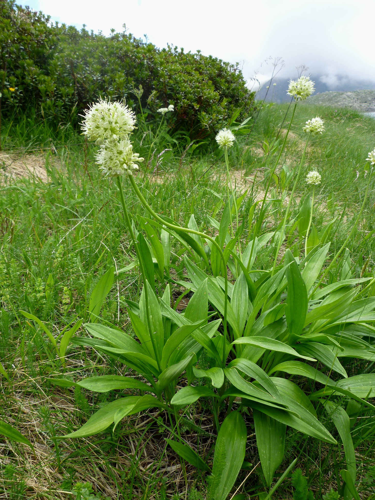 Allium victorialis. In Cabdella (Pallars Jussà - Catalunya. To 2.150 m altitude